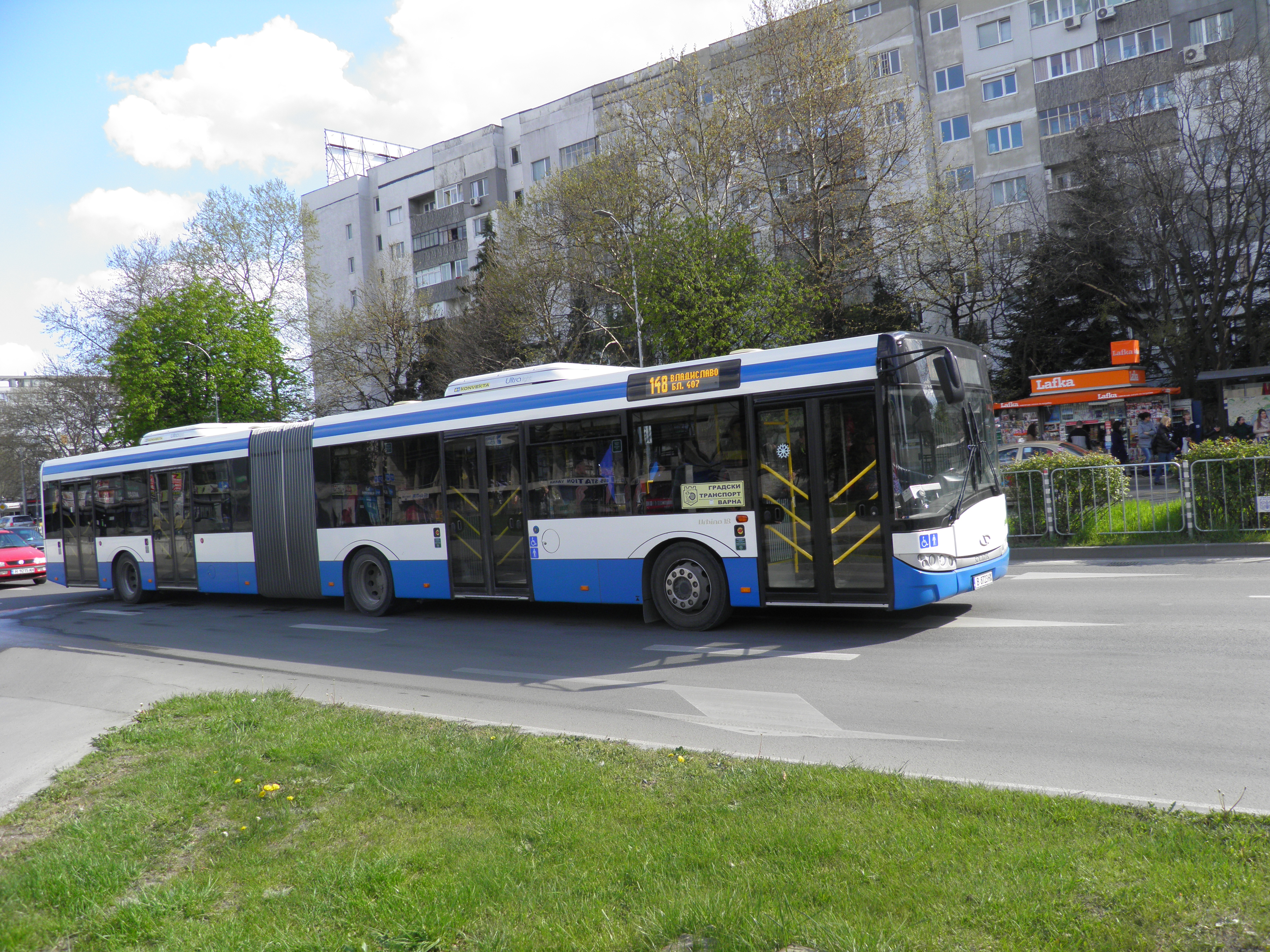 Solaris Urbino